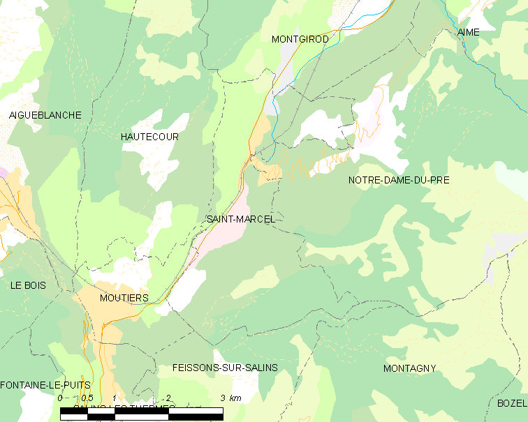 Map of French municipality